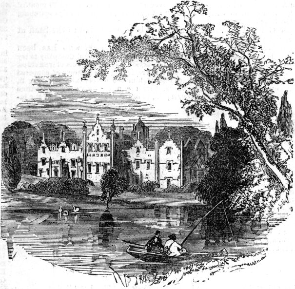 Gilston Park, Hertfordshire